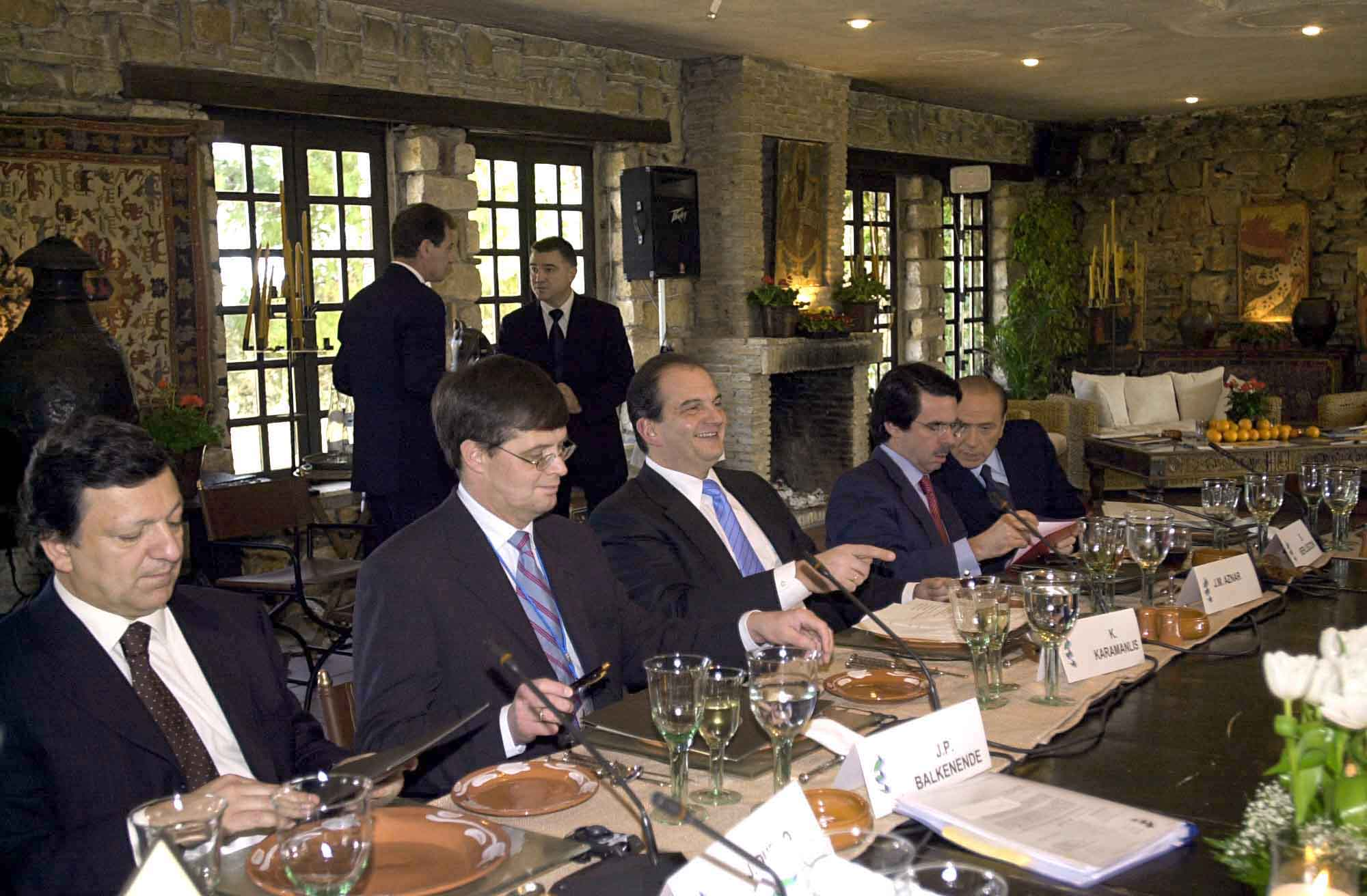 EPP Summit 19 February 2004 Athens